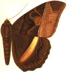 PLATE CCXI.